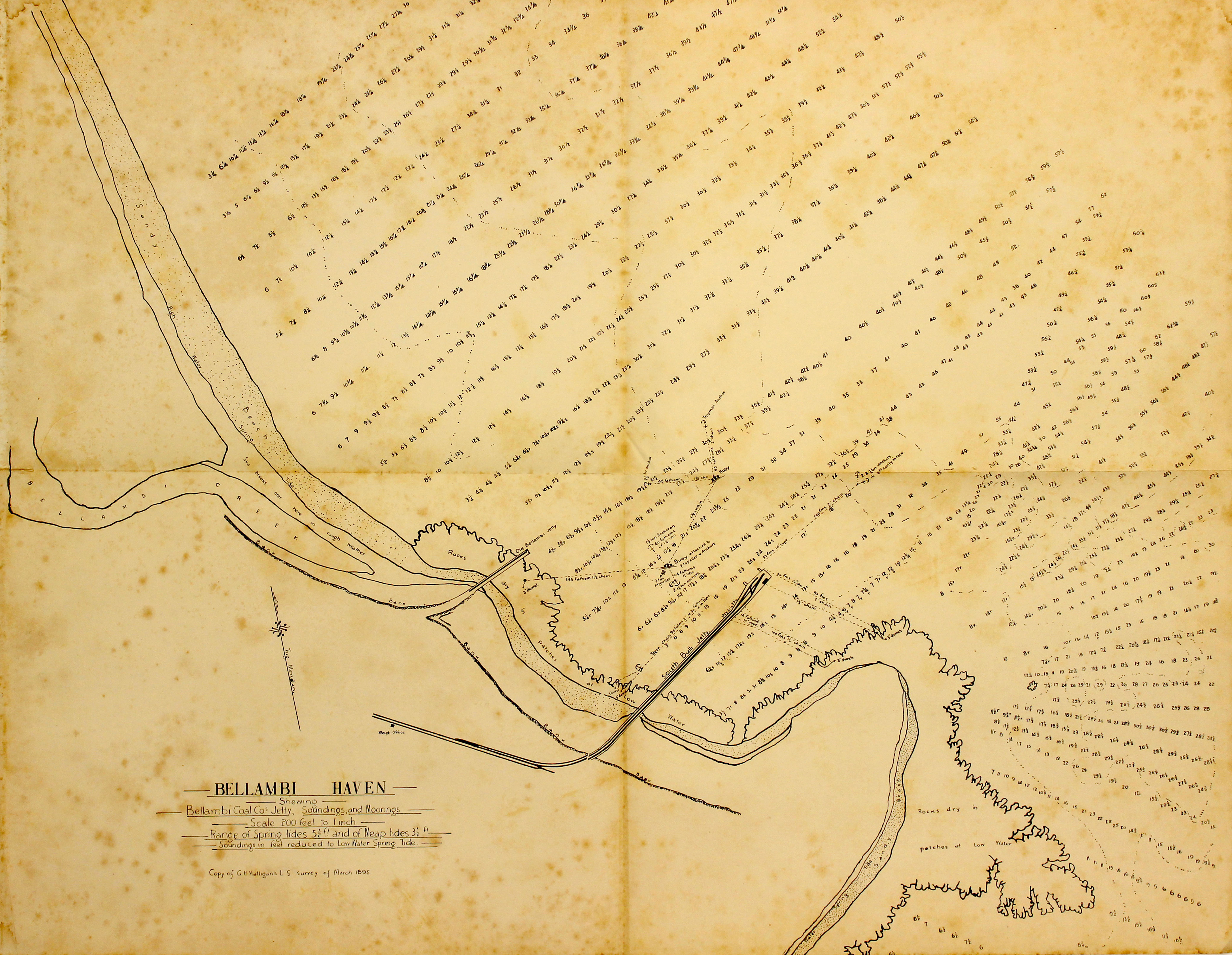 Chart shows both the old and "new" coal loading jetties.